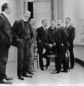 Miltiadis Terkas, Efthymios Kanellopoulos, Alexandros Mazarakis, Georgios Honaios, G. Papageorgiou, Dimitrios Kakavos, Kiriakos Tavoularis